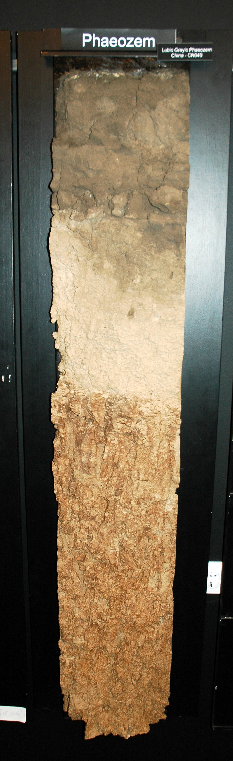 Soil profile of a Lubic Greyic Phaeozem